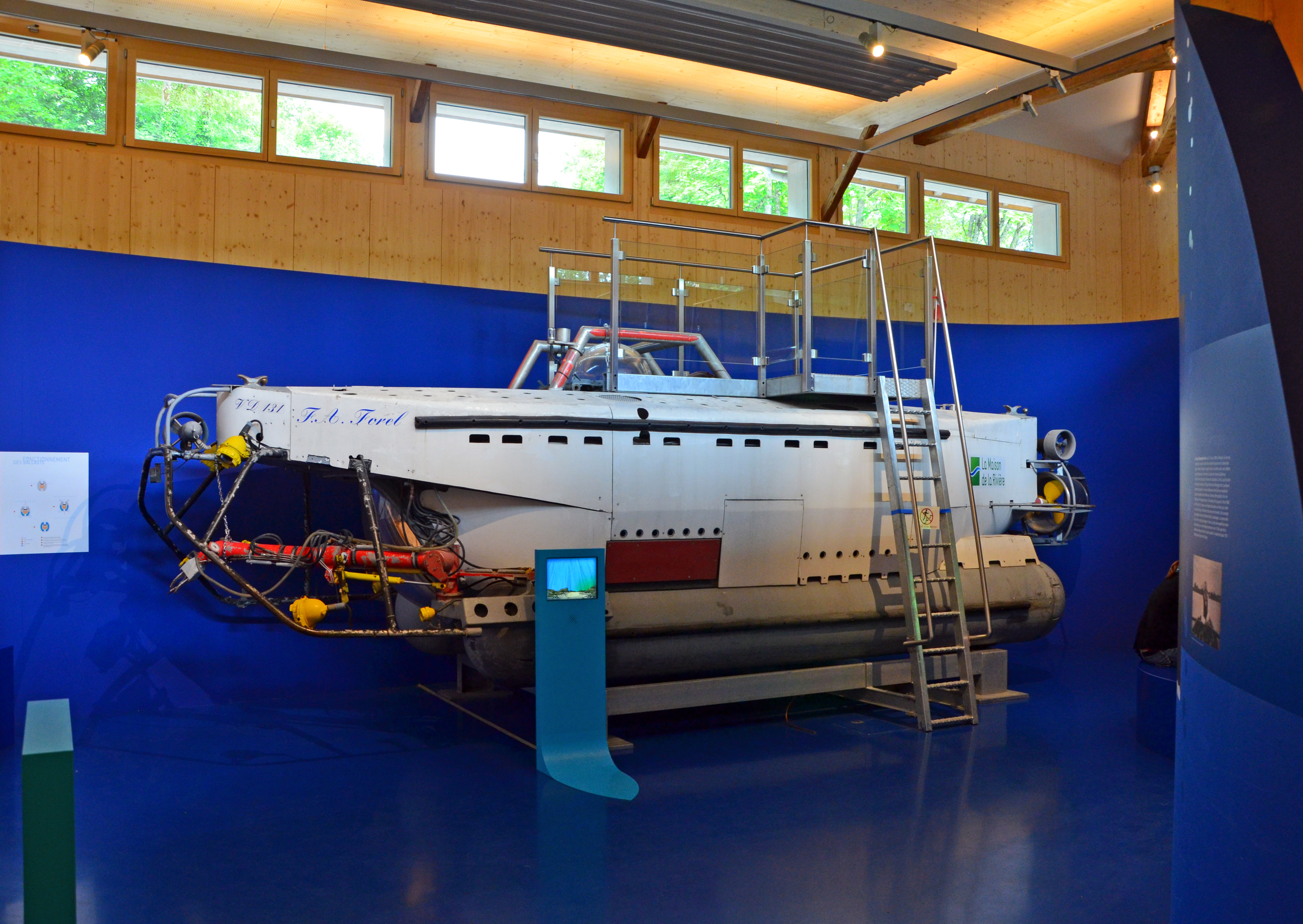 The midget submarine F.A. Forel, built in the 1970's for Jacques Piccard, a swiss oceanograph and oceanaut. It was given in 2006 to the "Maison de la Rivière" (House of the River) of Tolochenaz (Switzerland), where it is on show.